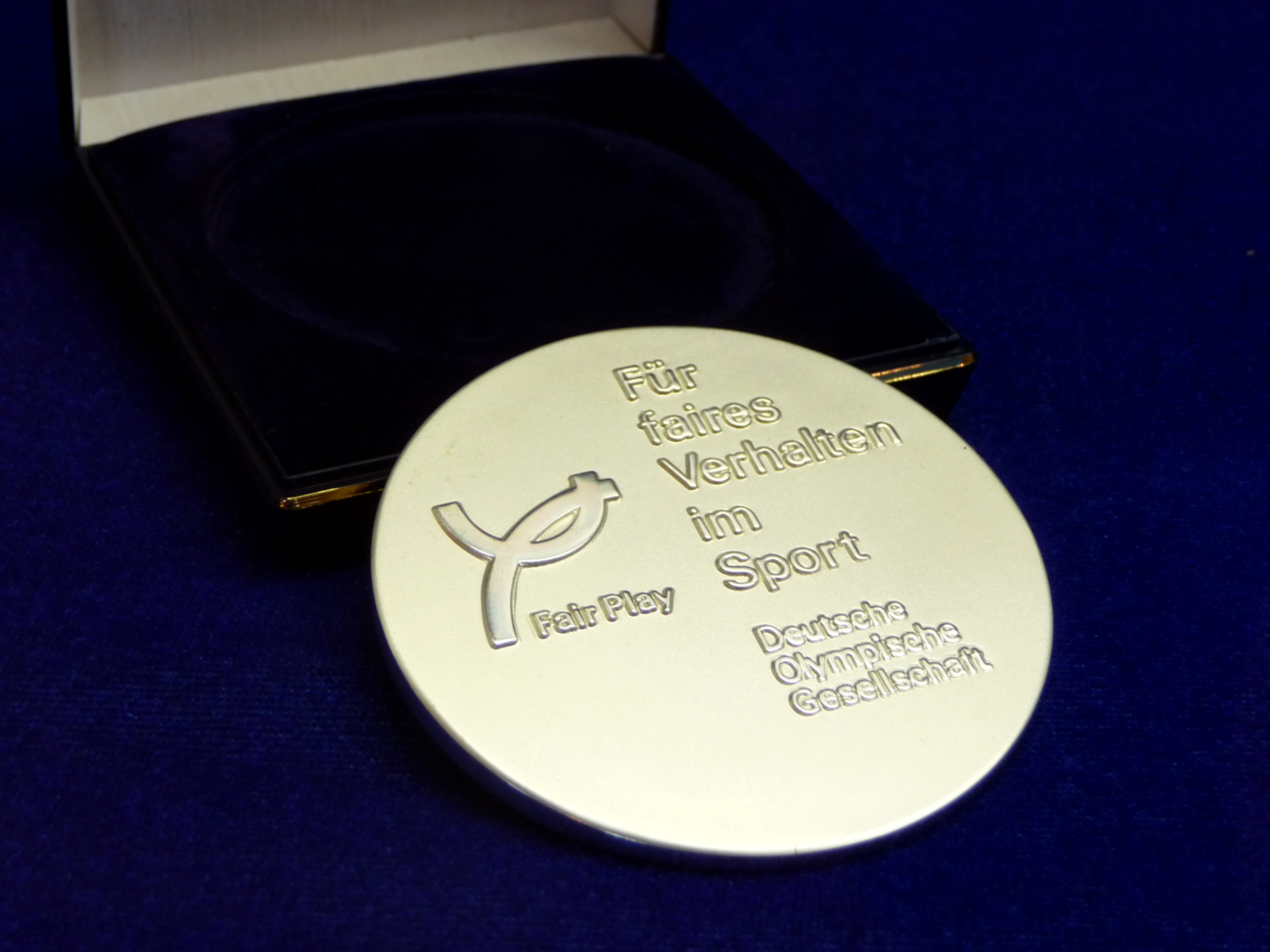 Fair Play medal of biathlete Magdalena Neuner, temporarily for display at town hall, Wallgau, Germany